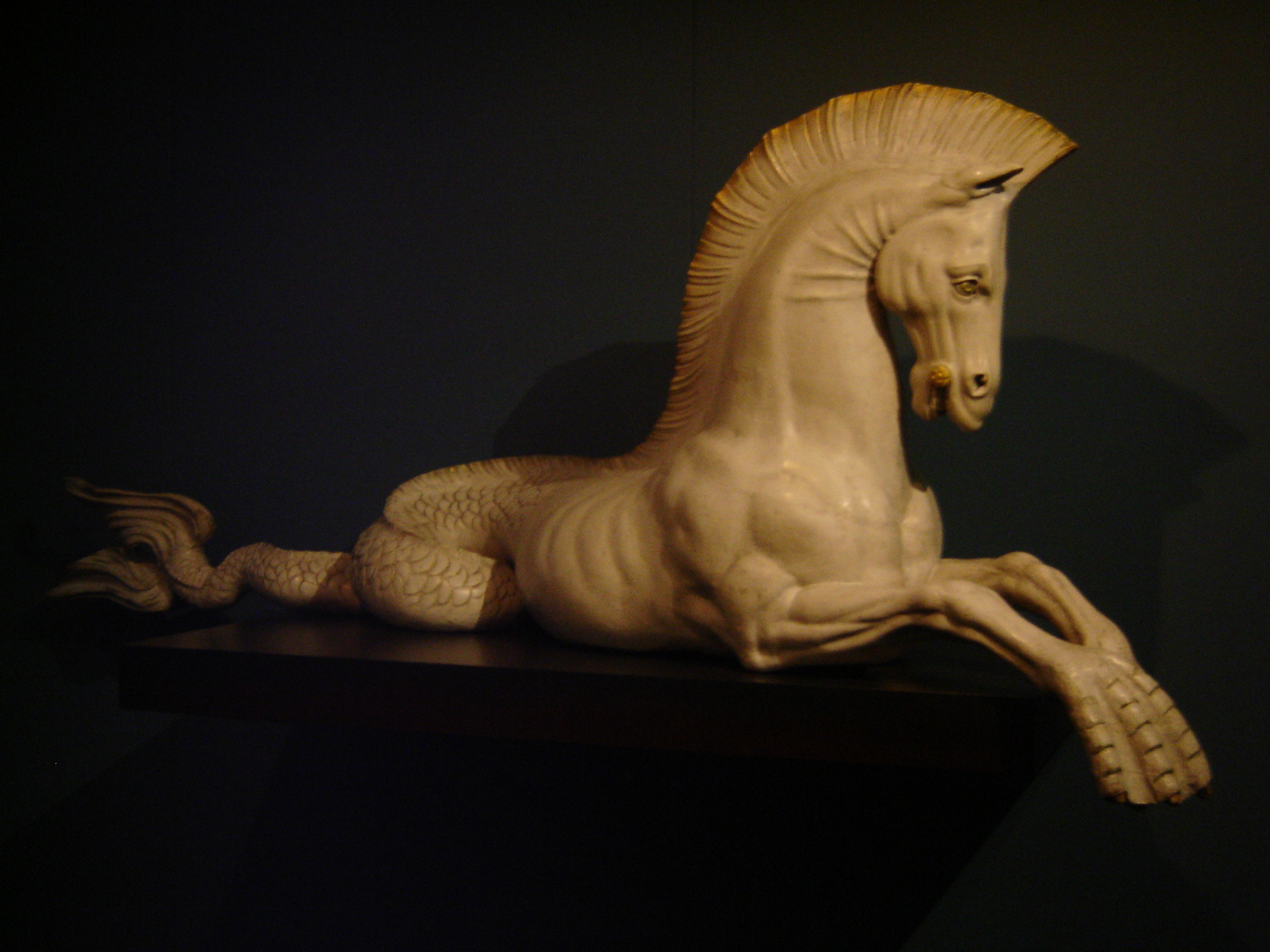 A sculpture of a heraldic depicition of a seahorse, by unknown 19th or 18th century French artist, showcased at the National Maritime Museum in Sydney, Australia.